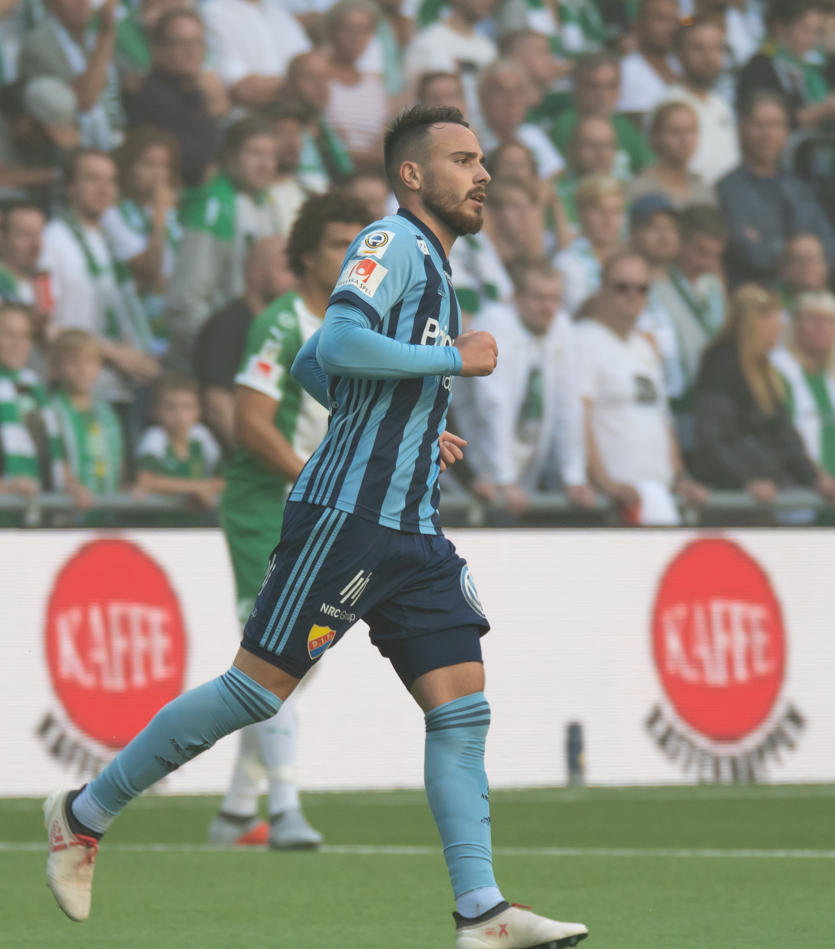 Hammarby-Djurgården 2018-09-03